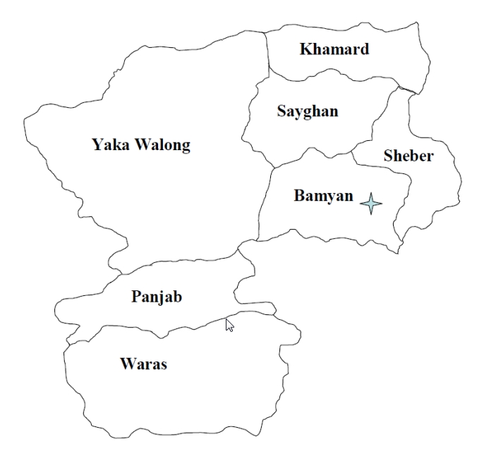 Districts of Bamyan Province.